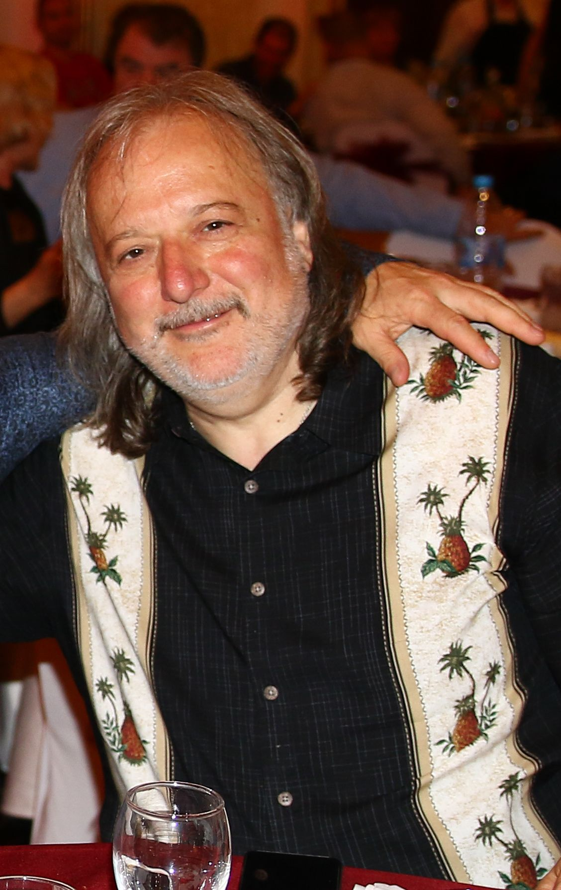 Volodia Stoyanov - is a Bulgarian composer, songwriter and performer of folk songs from the Macedonian folklore region.